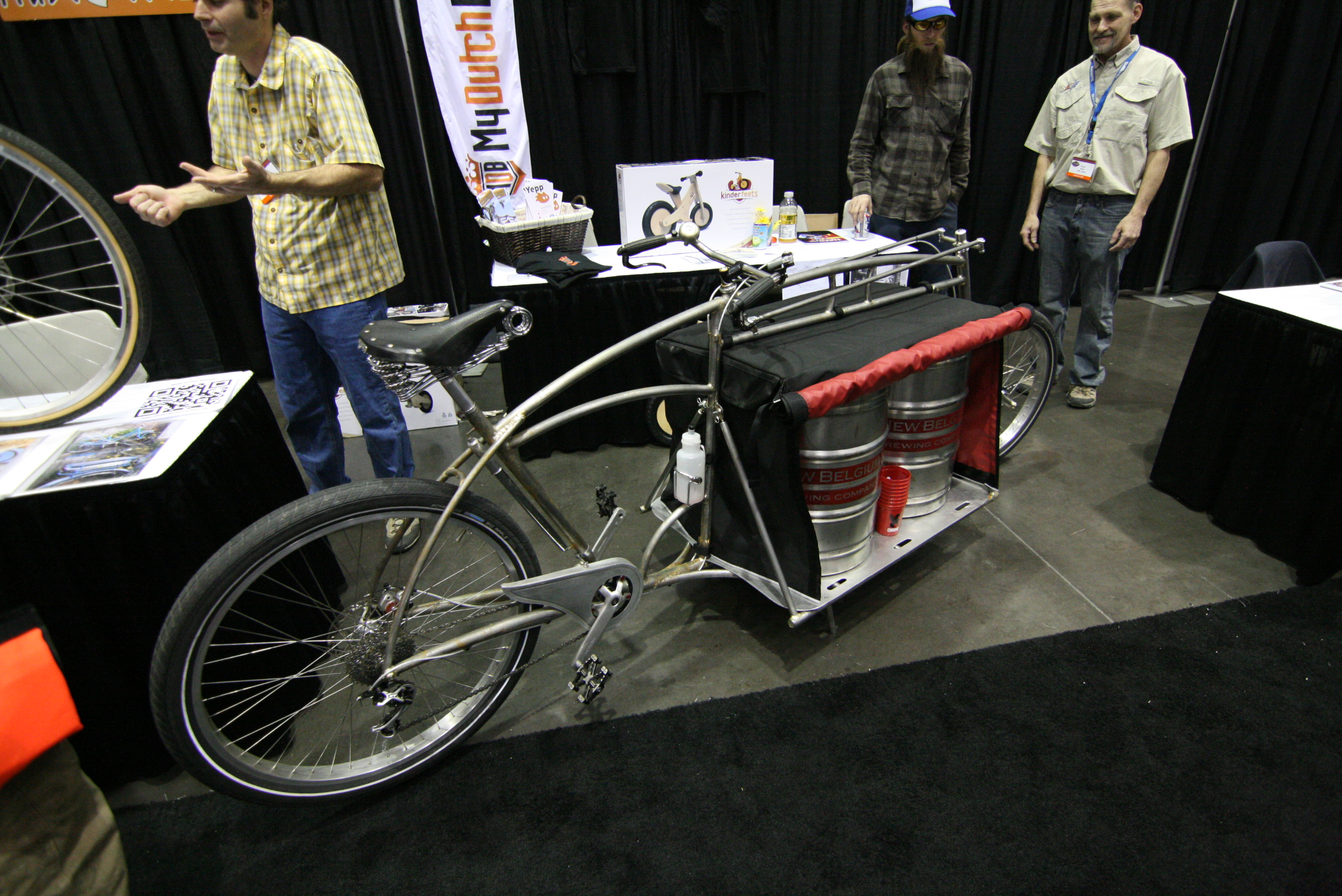 With sag support (and a cheater lift) from Chrome bags. North American Handmade Bicyycle Show 2012 Sacramento Convention Center which ends in about 30 minutes.